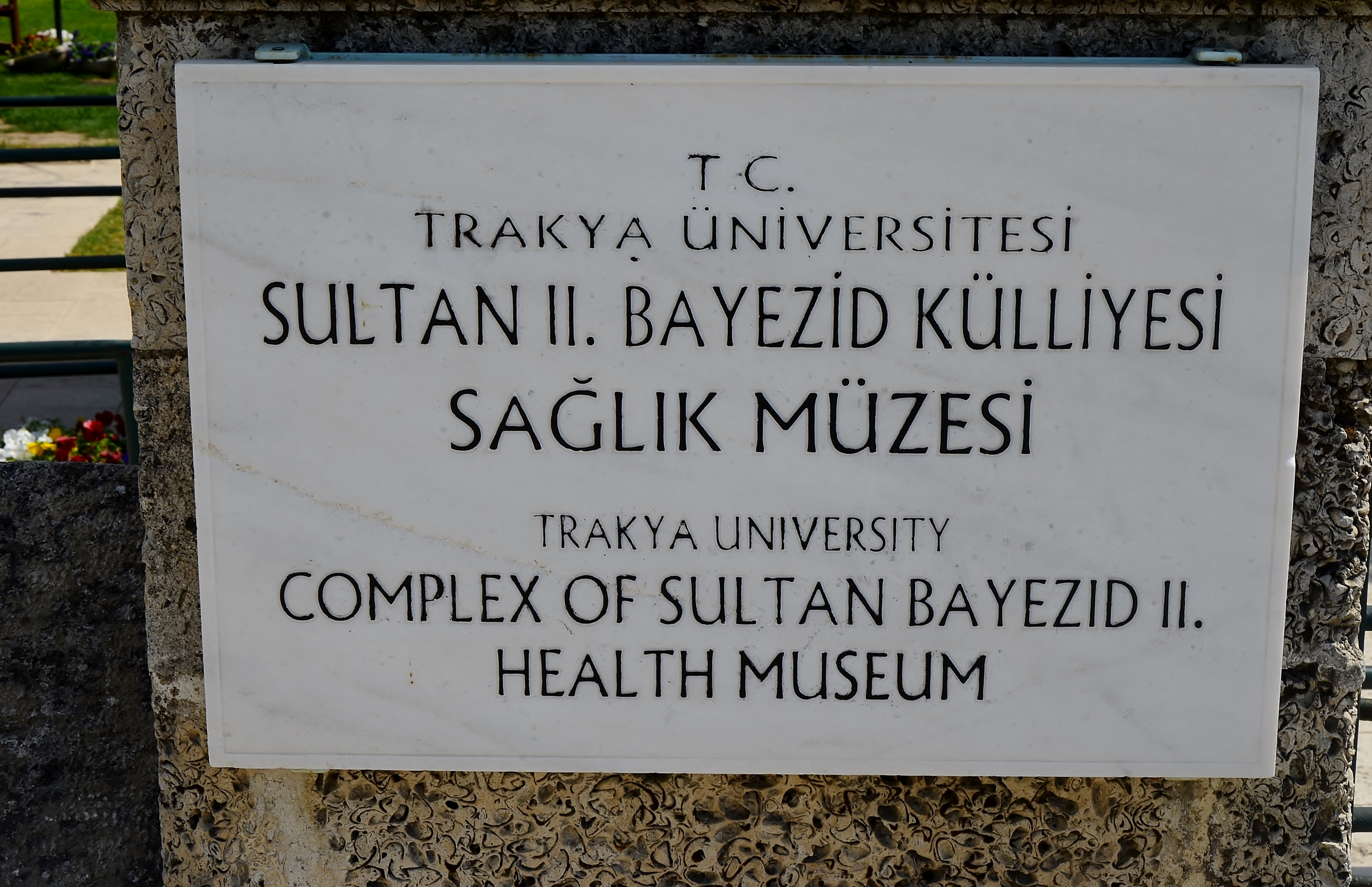 Inscription at the Complex of Sultan Bayezid II Heakth Museum in Edirne, Turkey